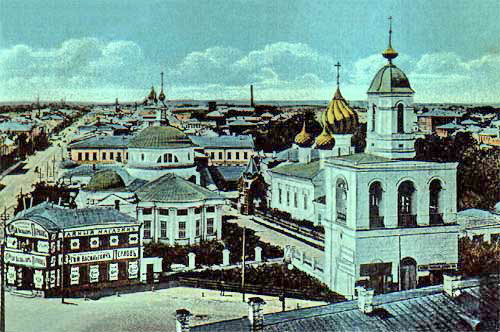 Volkov square in Yaroslavl before 1917.